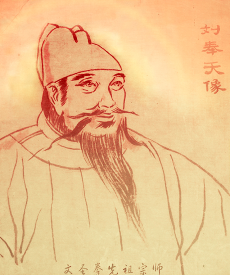 liufentian